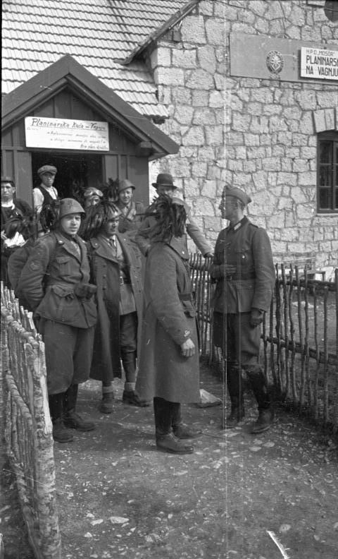 Information added by Wikimedia users.